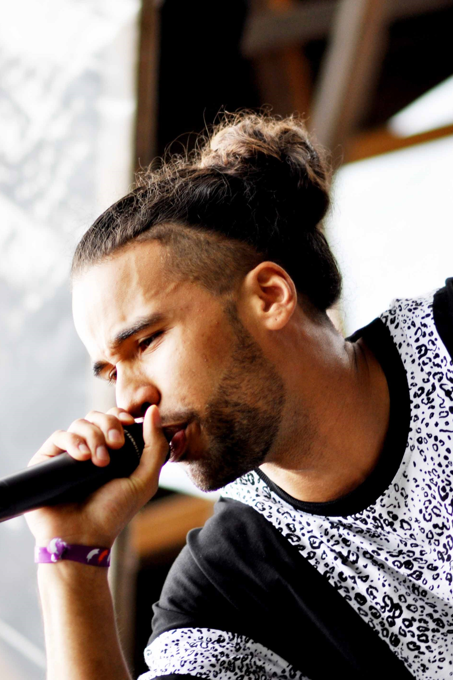 Lucry mit Egoland auf dem Daughterville Festival 2014